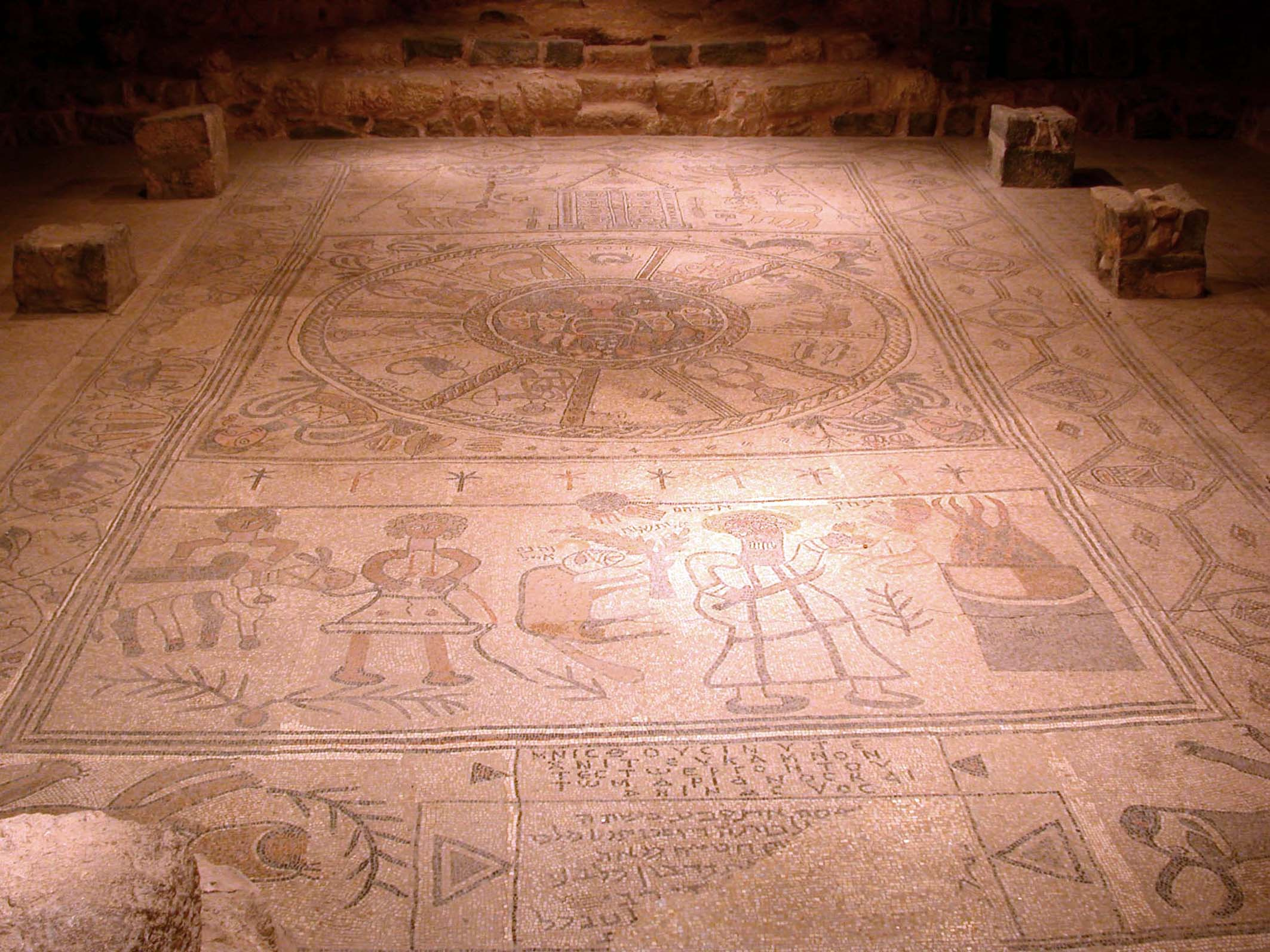 Nave Mosaics at Beth Alpha synagogue Archaeological site